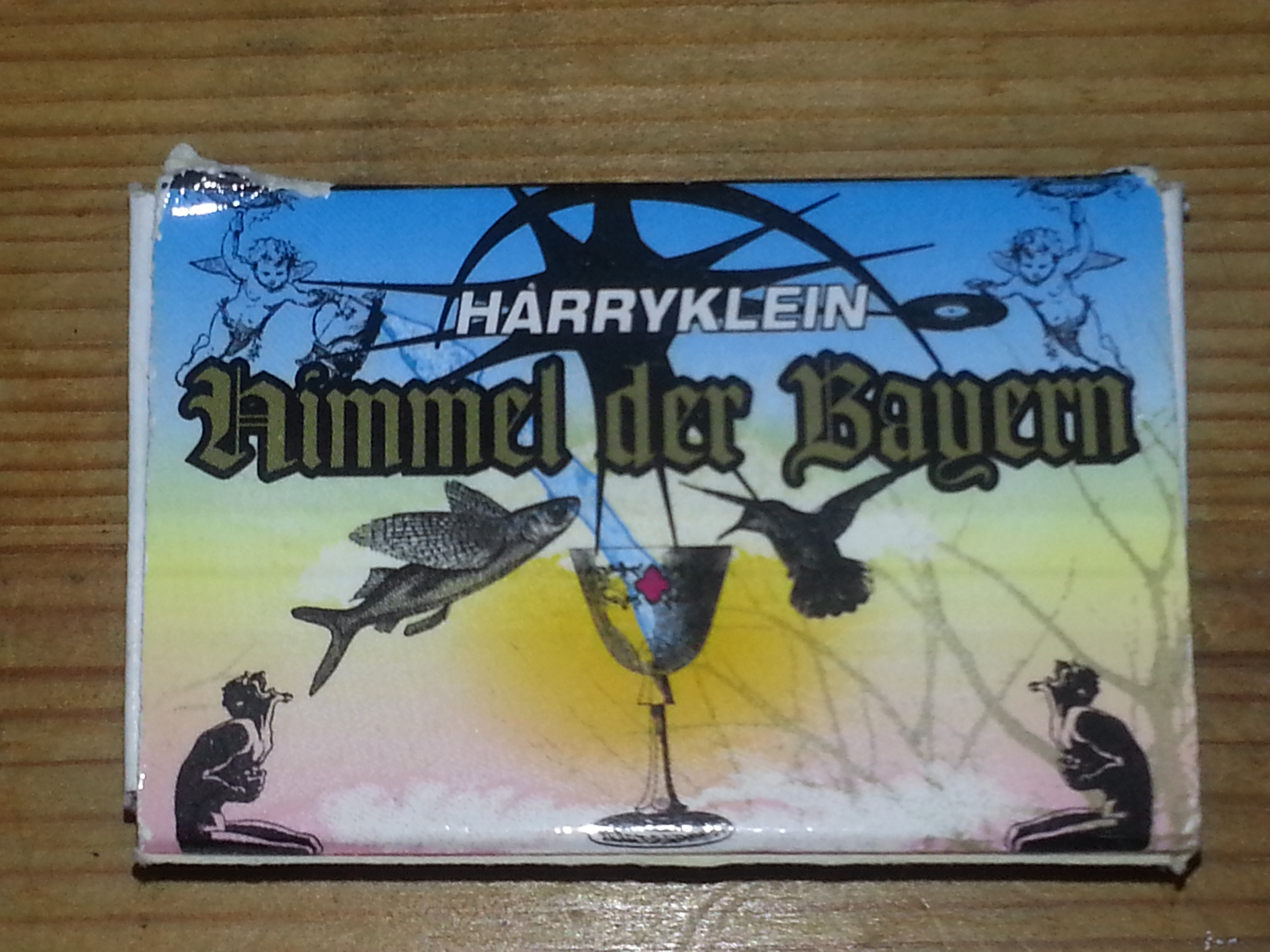 matchbox from harry klein club